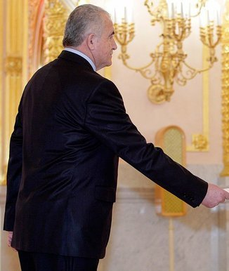 GRAND KREMLIN PALACE, MOSCOW. Presentation by foreign ambassadors of their letters of credence. Dmitry Medvedev receives a letter of credence from Ambassador of the Republic of Armenia Oleg Yesayan.